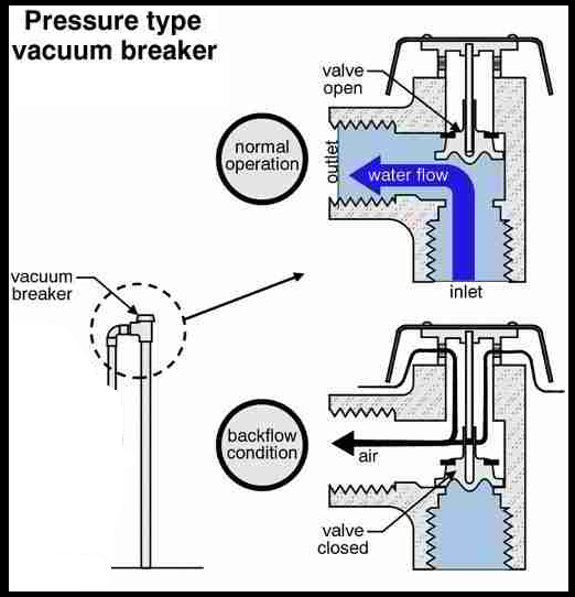 If the pressure in the water system happens to drop, the poppet valve drops as well, to compensate for the loss of pressure, and so the hood is raised by the action of the poppet valve. Air is sucked into the pipe as well by the loss of pressure, and the vacuum is filled before back-siphonage can occur, because the pressure is neutralized by the air, which, in turn, creates a buffer between the system of potable water and the contaminated water. It must not be installed underground as well, but is seen raised above the ground, because its operation may suck in ground water, which may be contaminated as well, into the system.